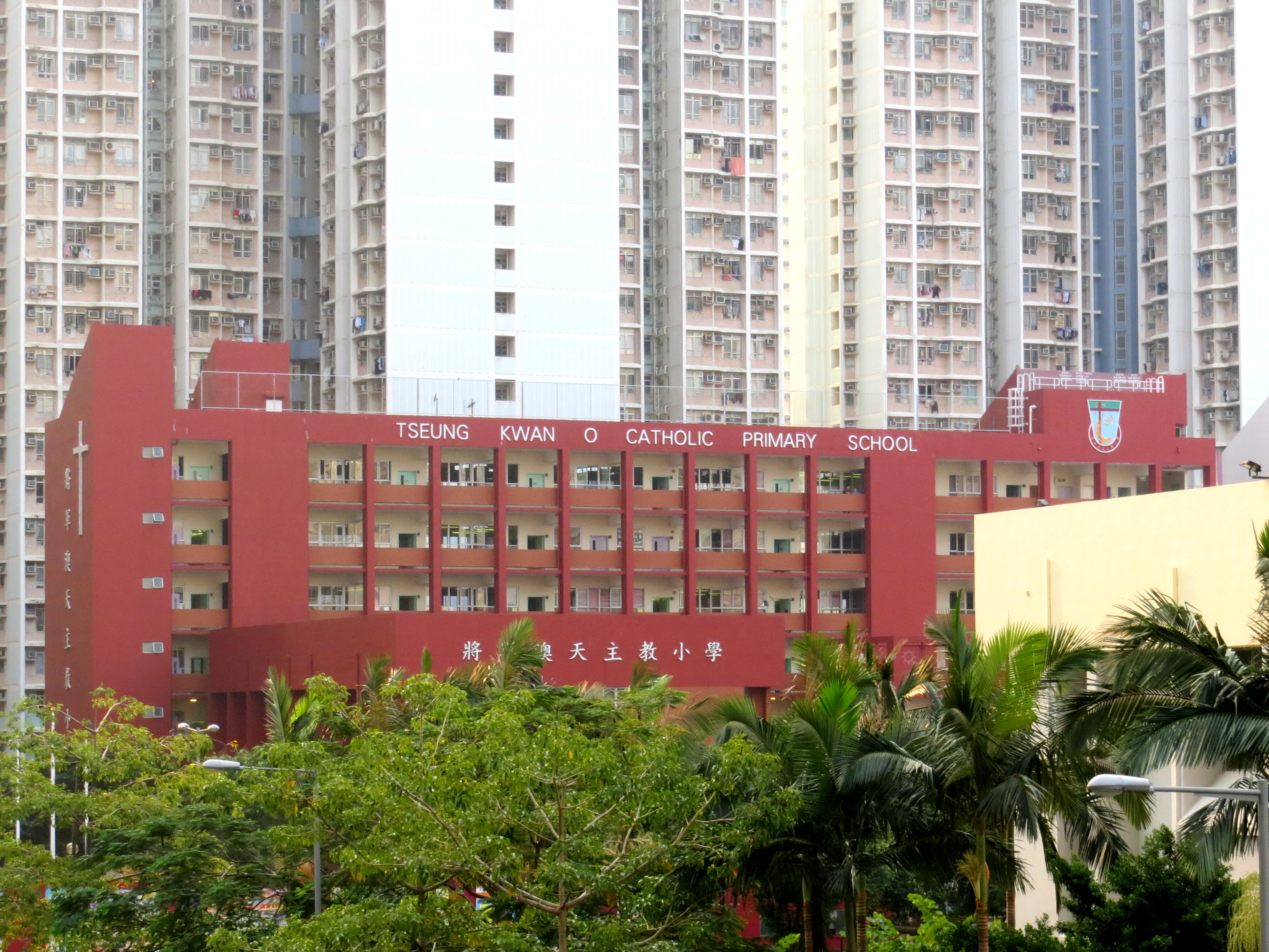 Tseung Kwan O Catholic Primary School, Hong Kong.